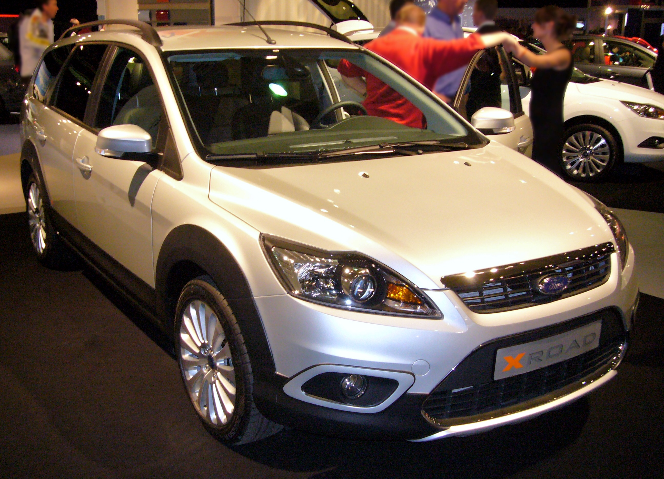 Front quarter view of the Ford Focus X Road at AutoRAI Amsterdam 2009